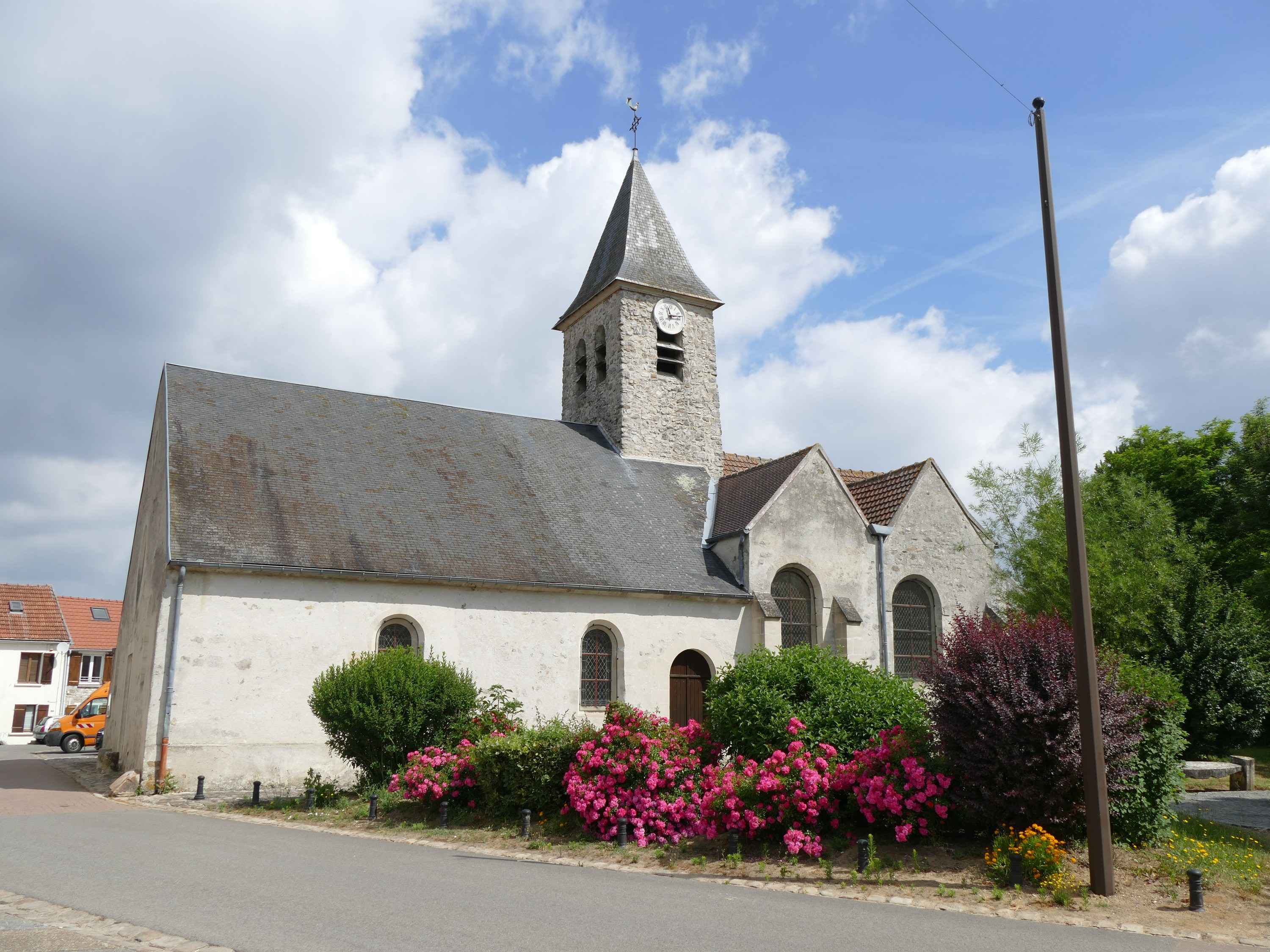 Saint-Médéric's church in Péroy-les-Gombries (Oise, Picardie, France).